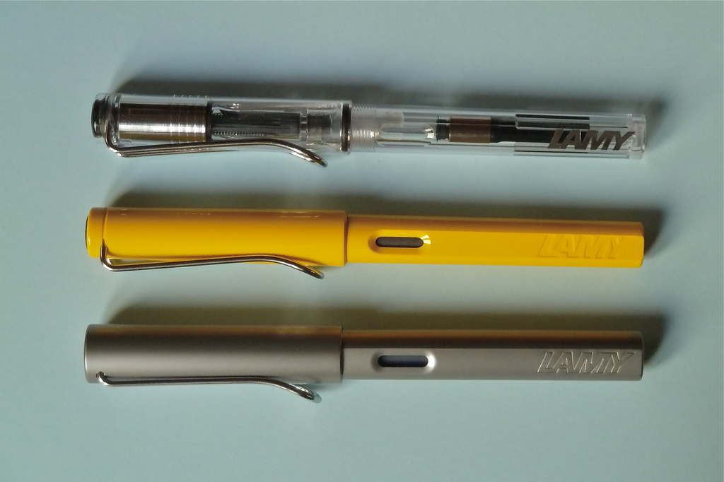 Lamy fountain pens. From top to bottom: Lamy vista medium nib with a Z 26 piston operated converter inside, Lamy safari fine nib and Lamy AL-star graphit extra fine nib.